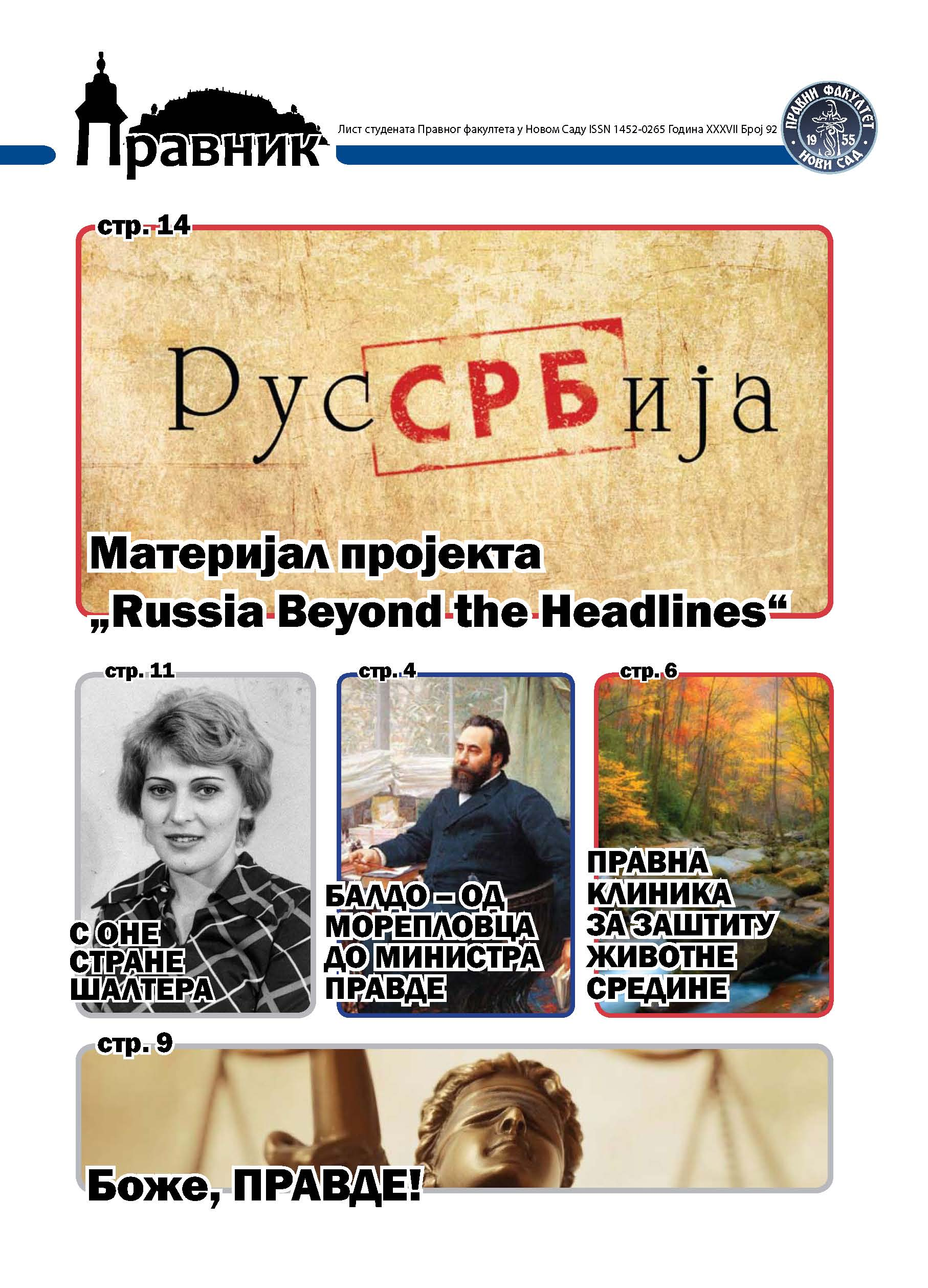 Students journal Pravnik, Association of Students of the University of Novi Sad, Serbia, year XXXVII